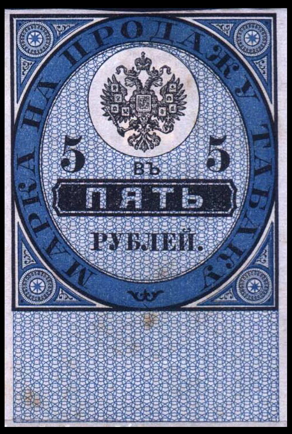 Russia. Tobacco excise stamp